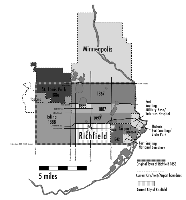 Map shows the partitioning of the town of Richfield starting in 1854 to the present day city of Richfield. Map illustration by Joe Hoover, 2007, for book: "Richfield: Minnesota's Oldest Suburb" published by the Richfield Historical Society. Reproduced with permission of the artist and released to public domain courtesy of Joe Hoover. Sources Johnson, Fred, Richfield, Minnesota's Oldest Suburb 14, (Richfield: Richfield Historical Society Press). David J. Butler. "Did the Town of Richfield ever extend as far north as Franklin Avenue?" Richfield Historical Society Bulletin, (Summer 2006):3-4. Balcom, Early Richfield History